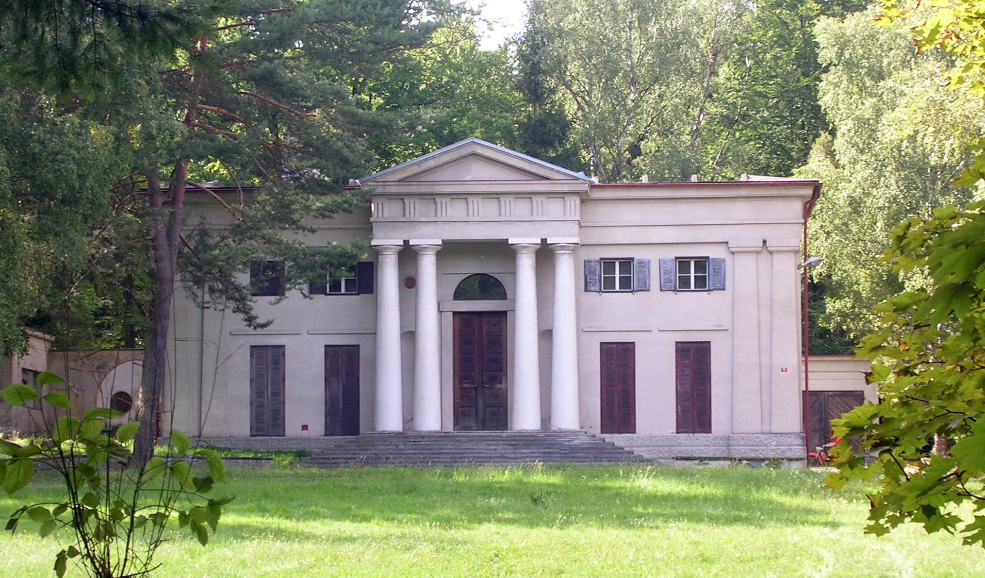 Karlova Ves, Rakovník District, Central Bohemian Region, the Czech Republic. The villa No 41.